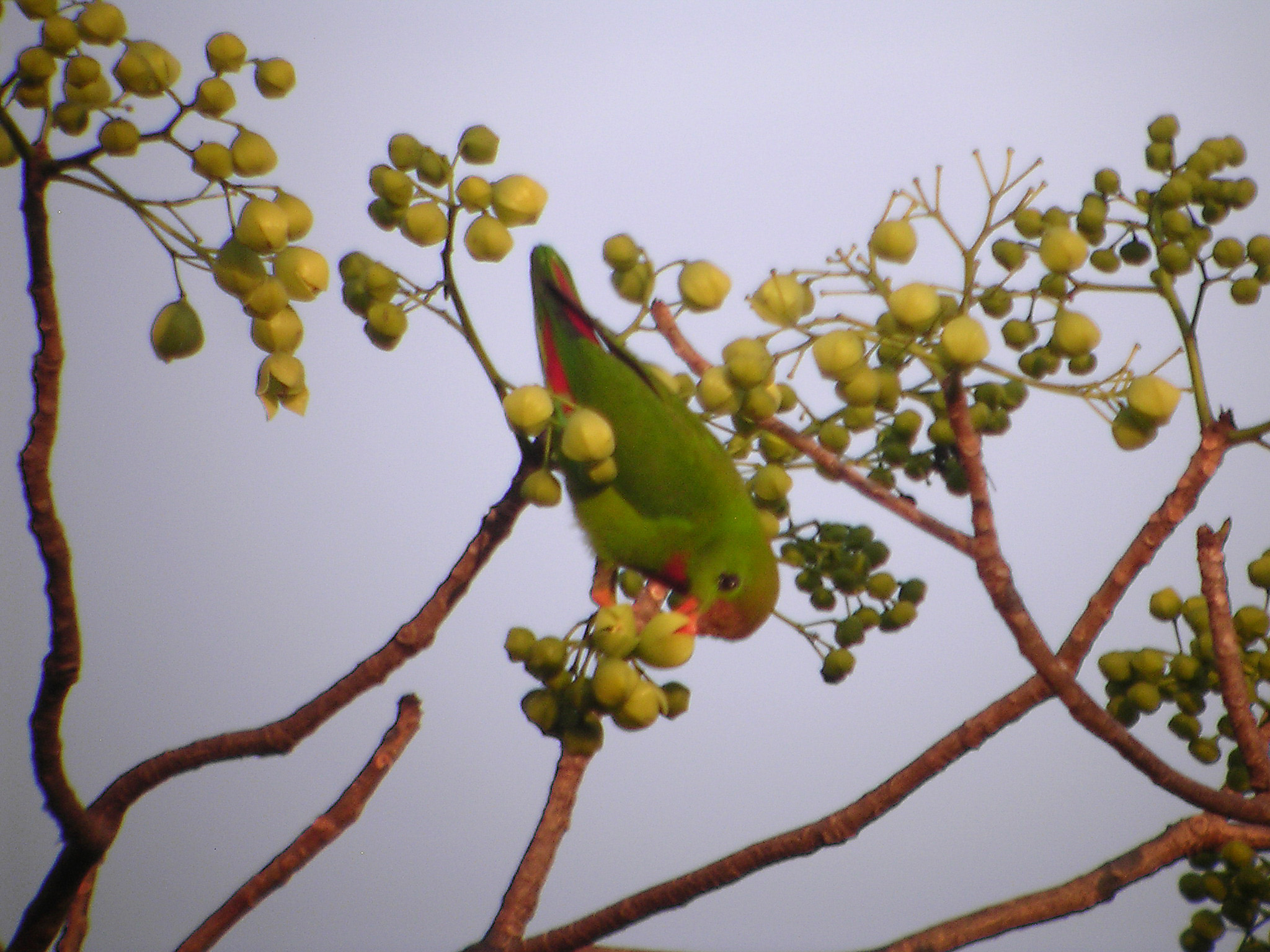 A male Philippine Hanging Parrot at Subic Bay, Luzon, Philippines. The nominate subspecies.